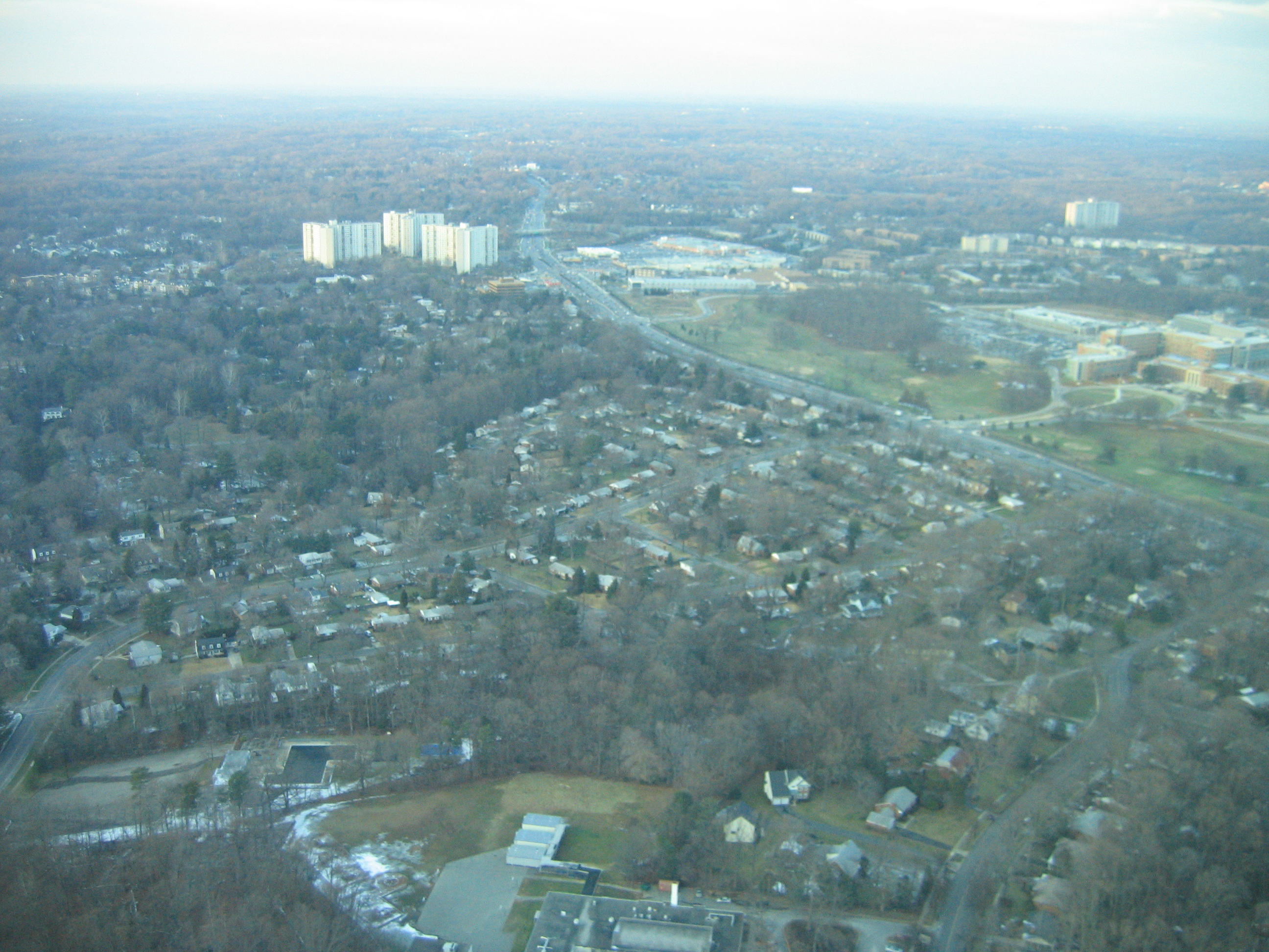 Maryland Route 650 (New Hampshire Avenue) through White Oak, MD, USA.